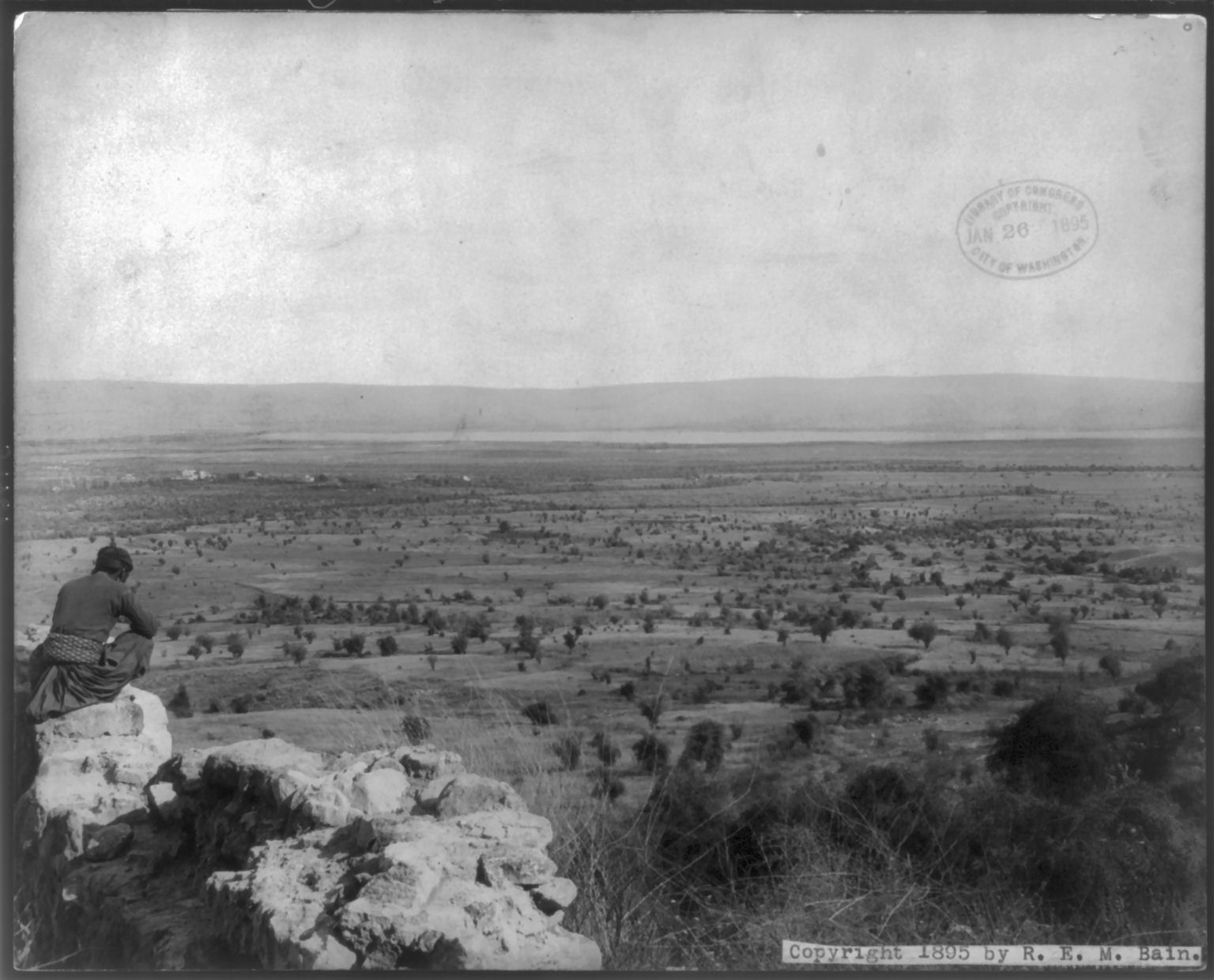 Dead sea, panorama (1895)